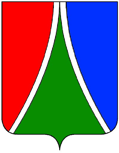 Coat of arms of the municipality of Franzensfeste, South Tyrol.